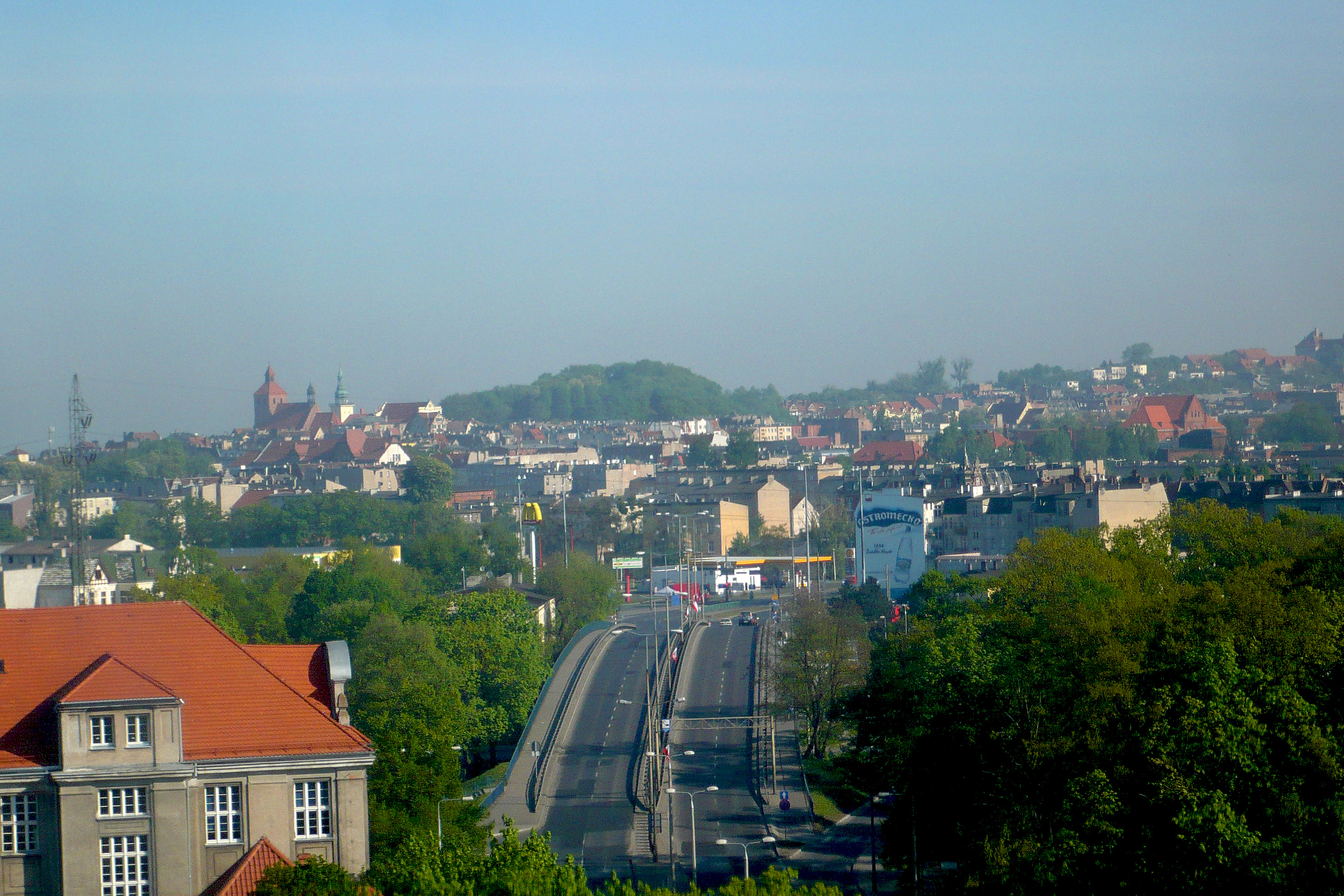 View on old Grudziadz.